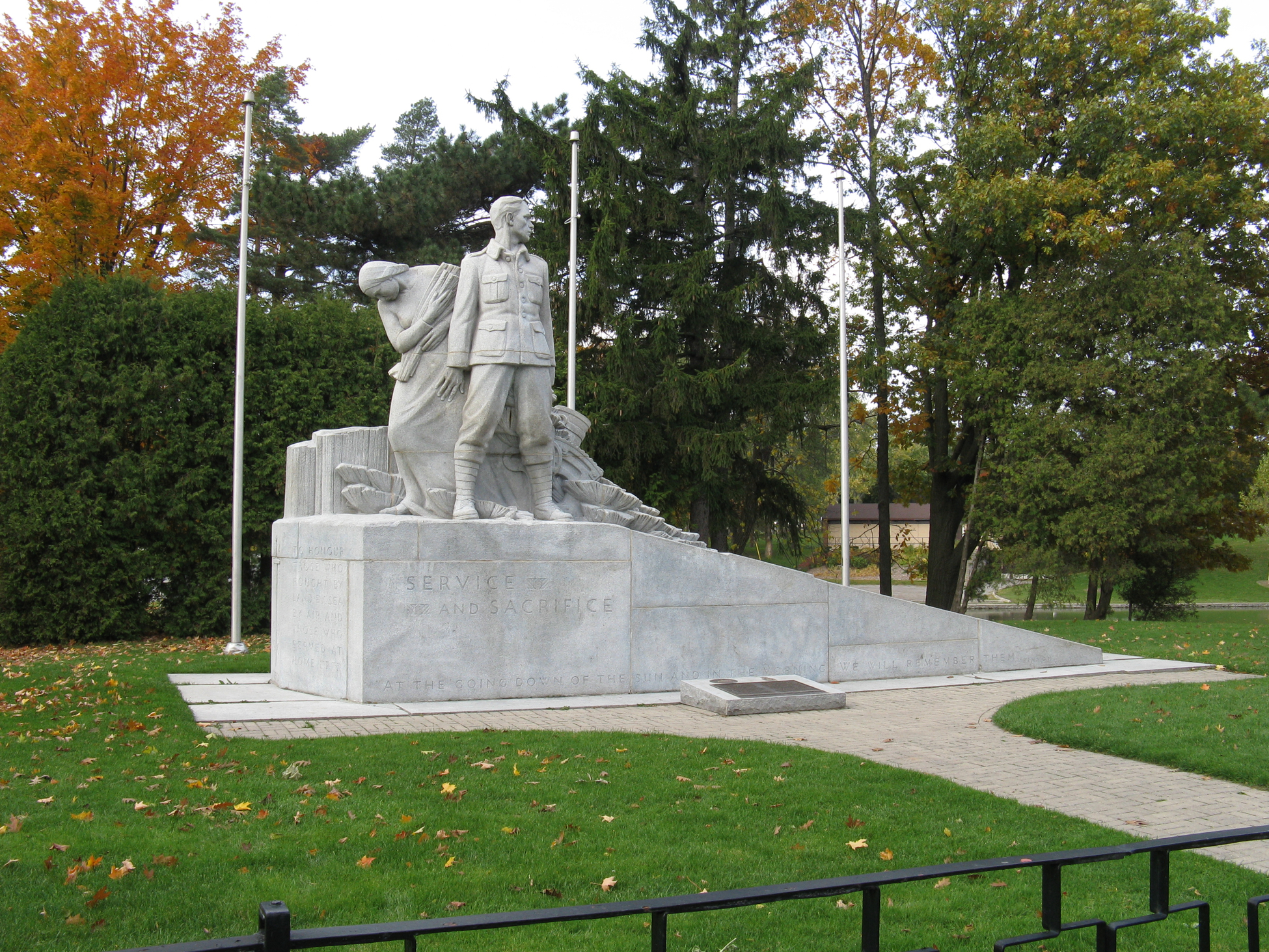 Welland-Crowland War Memorial in Welland, Ontario. Dedicated on September 4, 1939, it was the last large World War I memorial erected in Canada. Designed by Canadian sculptor Elizabeth Wyn Wood.